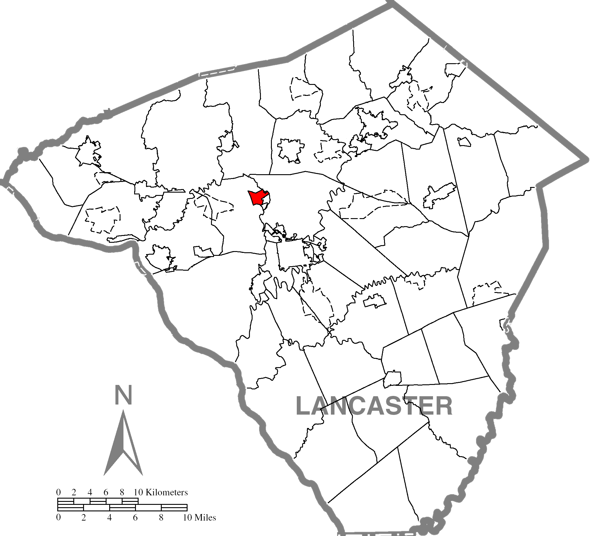 Highlighted Lancaster County map of East Petersburg.